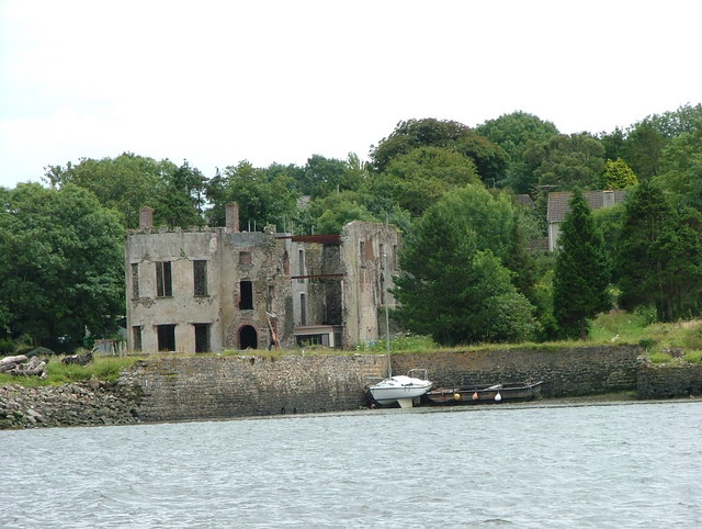 "Big House" at Landshipping The derelict house and quay/harbour at Landshipping. The house I believe was built by the coal mine owners; restoration by the present owner is planned; a magnificent old building in a wonderful position. Known by locals as Landshipping Mansion or Ty Mawr (Big House).